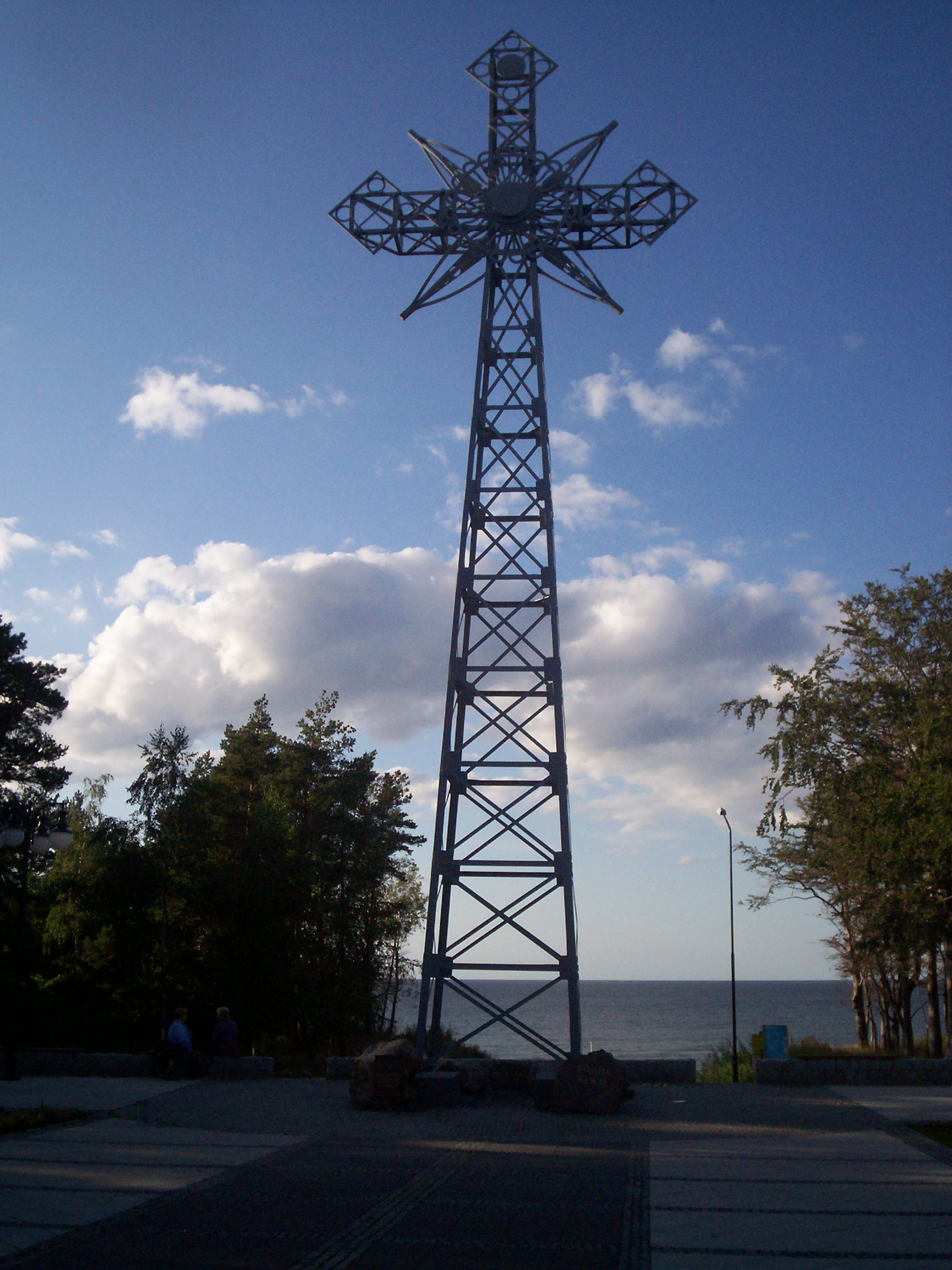 Pope's Cross in Pustkowo (Gryfice County).